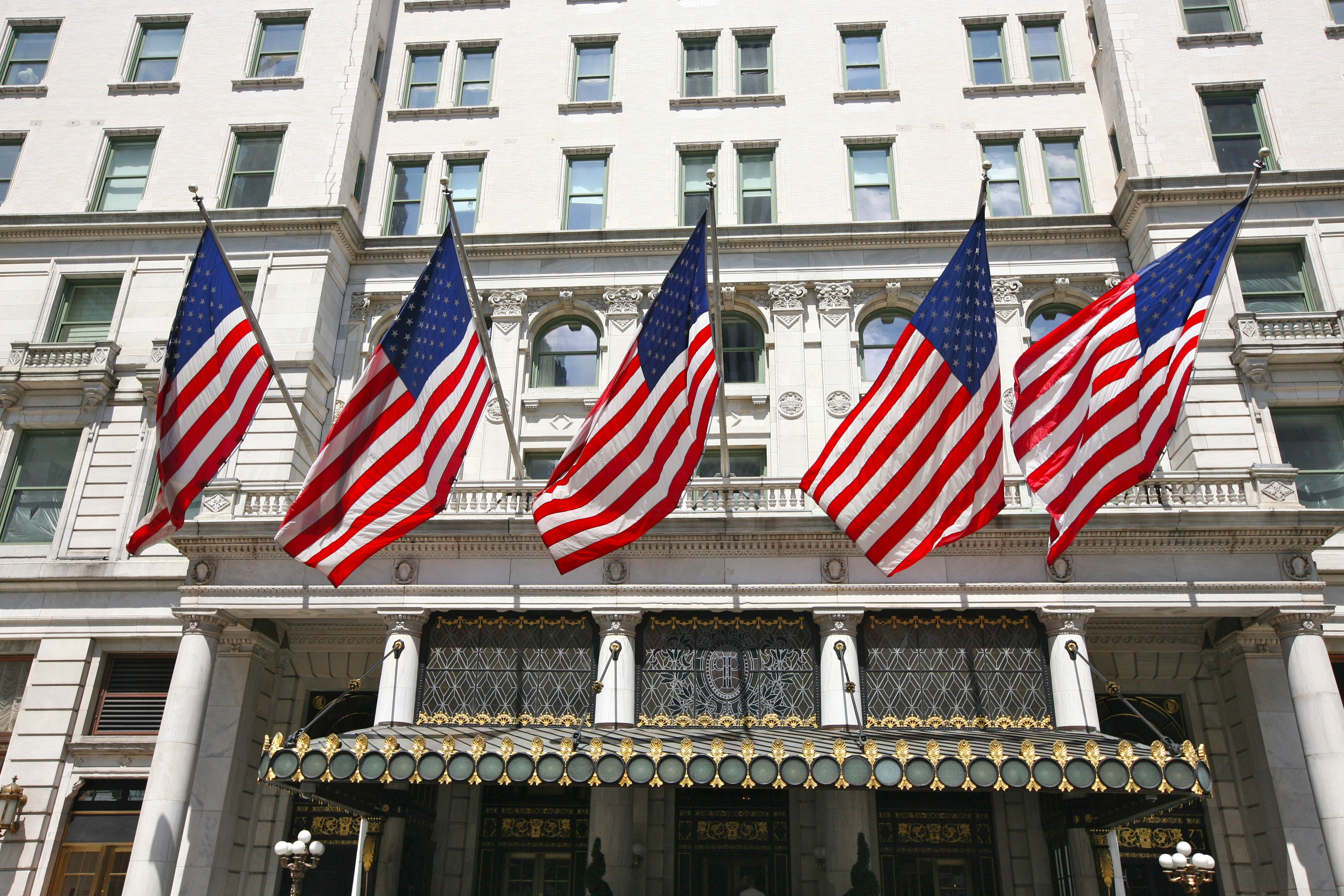 American Flags (Entrance to Plaza Hotel, New York City).